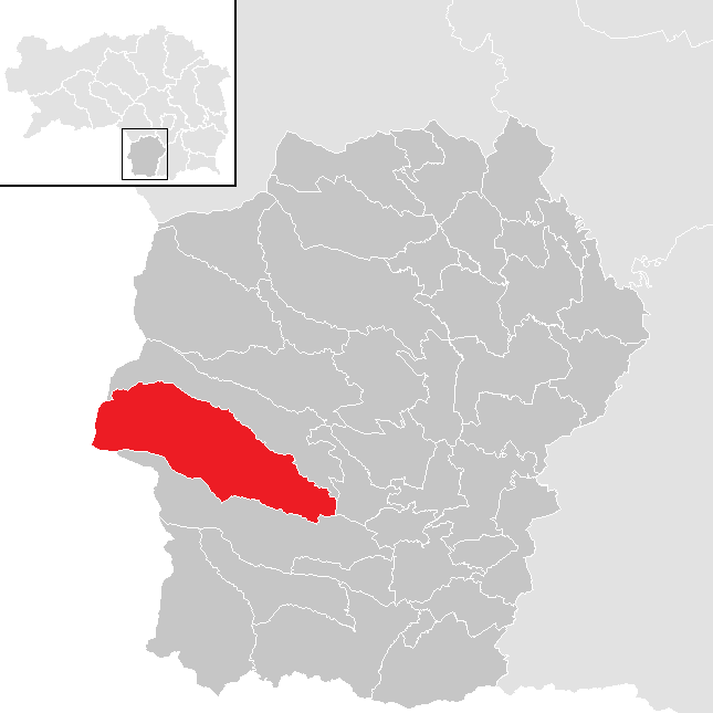 District Deutschlandsberg, Styria, Austria